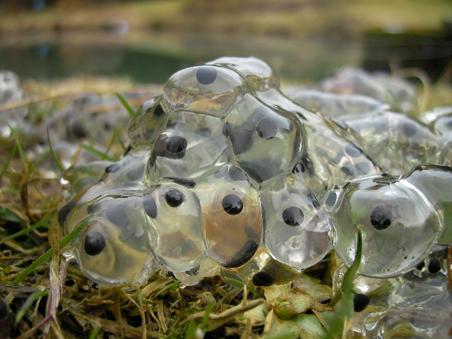 Rana temporaria